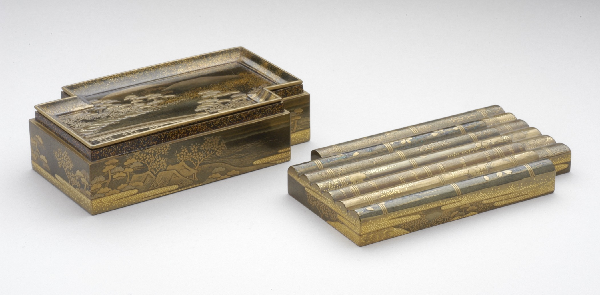 Japan, mid-19th century Alternate Title: K¯obako Furnishings; Accessories Lacquer with gold and silver makie (sprinkled powder) design REMEASURE Gift of Miss Bella Mabury (M.39.3.37a-c) Japanese Art